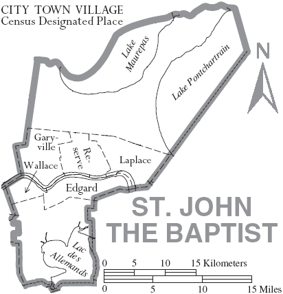 Map of St. John the Baptist Parish, Louisiana, United States with municipal boundaries